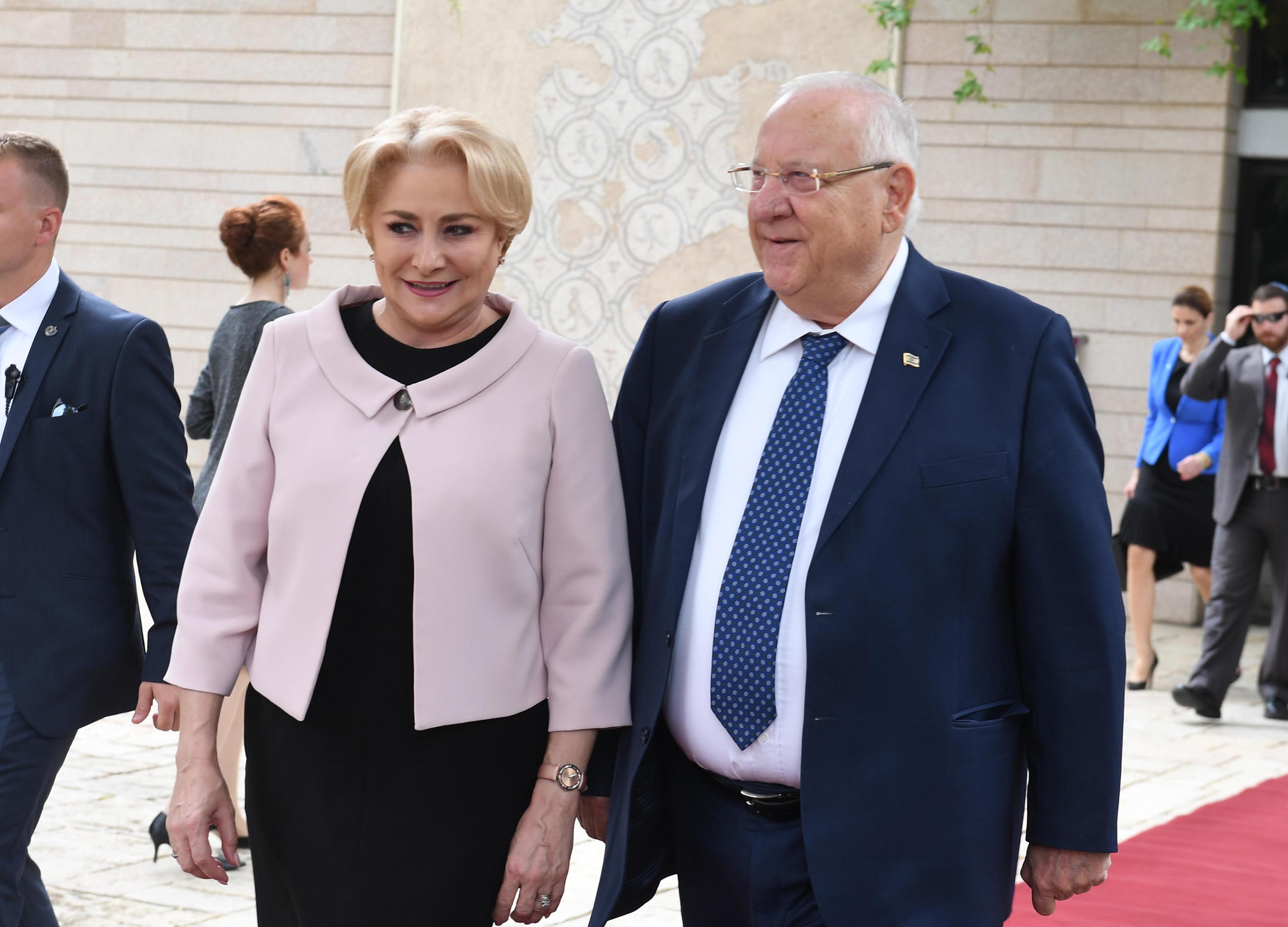 President of Israel, Reuven Rivlin, In a meeting with the head of the Romanian government, Viorica Dăncilă, as part of her official visit to Israel. Thursday, April 26, 2018. Photo Credit: Mark Neyman / GPO. Depicted people: Reuven Rivlin and Viorica Dăncilă